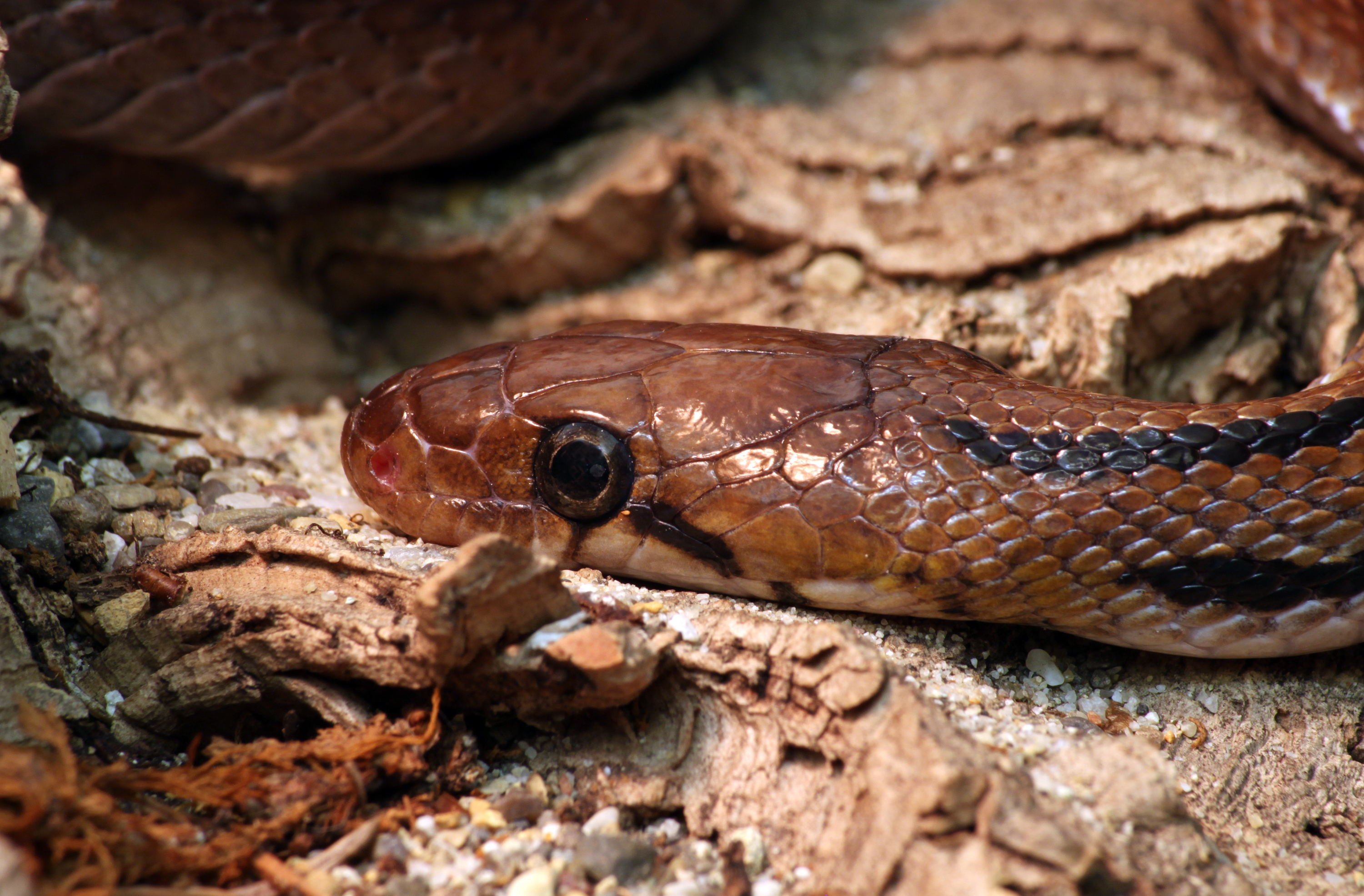 Coelognathus helena syn. Coelognathus helenus, Family: Colubridae, Location: Germany, Ulm, Zoological Garden